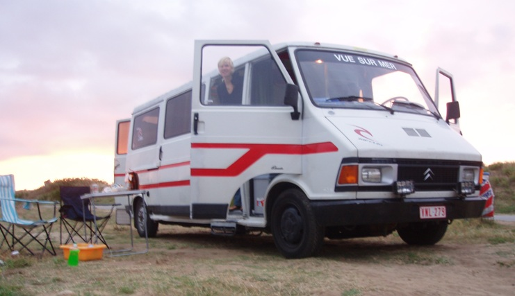 Citroën C35